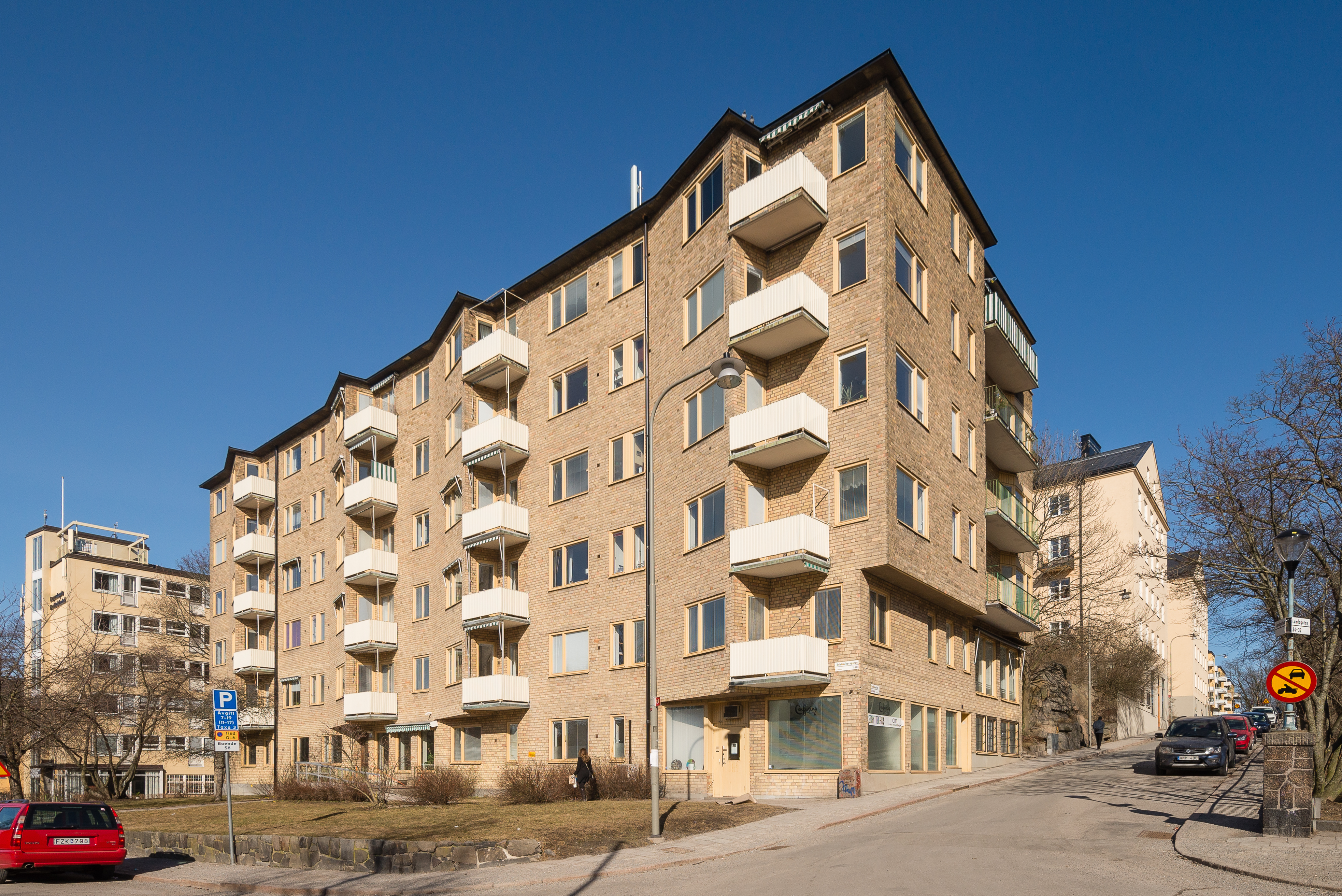 Gnejsen 4 is a residential building in Södermalm, Stockholm. Built 1941 by Olle Engkvist. Architect Albin Stark.